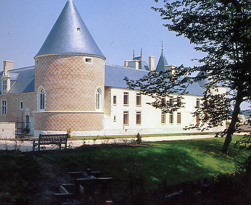 Southern wing of Chamerolles Castle, Chilleurs-aux-Bois, Loiret, Centre, France